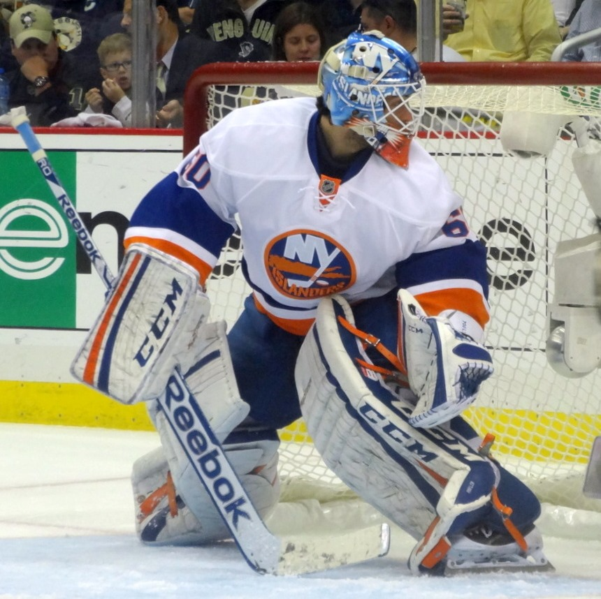 New York Islanders backup goaltender Kevin Poulin entered game five of their 2013 Stanley Cup playoffs round one series against the Pittsburgh Penguins after the Islanders had fallen behind 4-0 in the third period. May 9, 2013 at Consol Energy Center in Pittsburgh, PA.